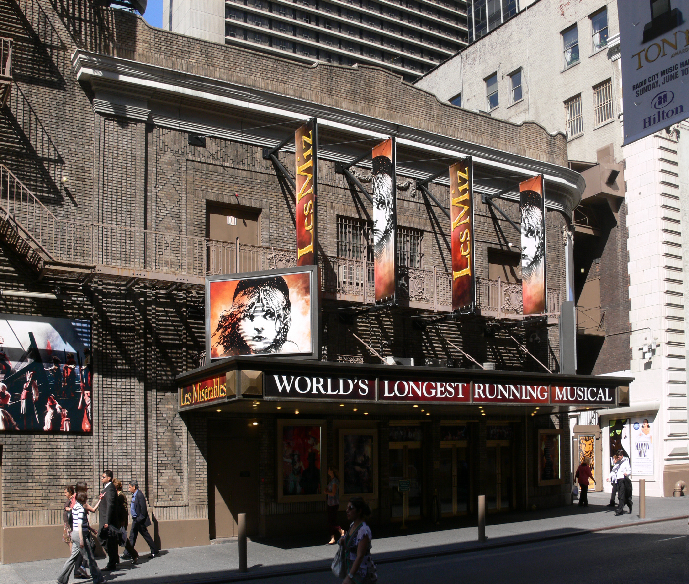 Broadhurst Theatre, showing Les Misérables 235 West 44th Street, Manhattan, New York City